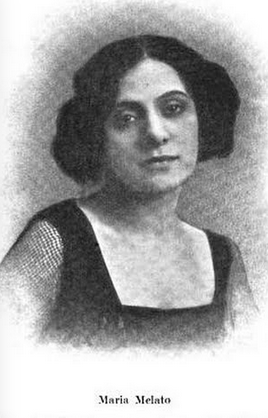 Maria Melato, from a 1917 publication.